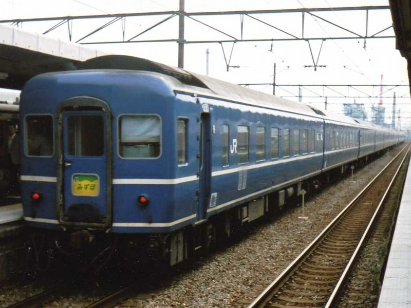 Kyushu Railway Company, Passenger car type 14 Midnight Limited Express "Mizuho" at Fuji Sta.